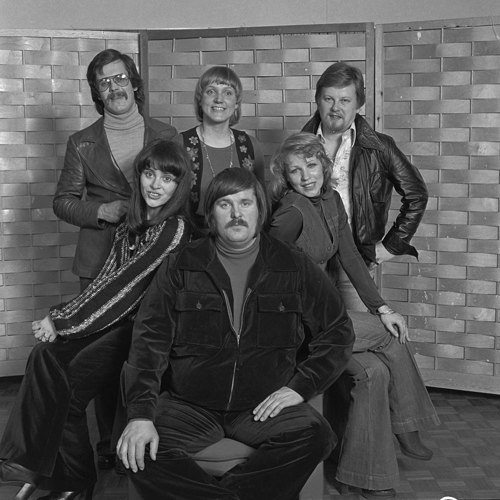 Portrait of Fredi & Ystävät at the day of the Eurovision Song Contest 1976